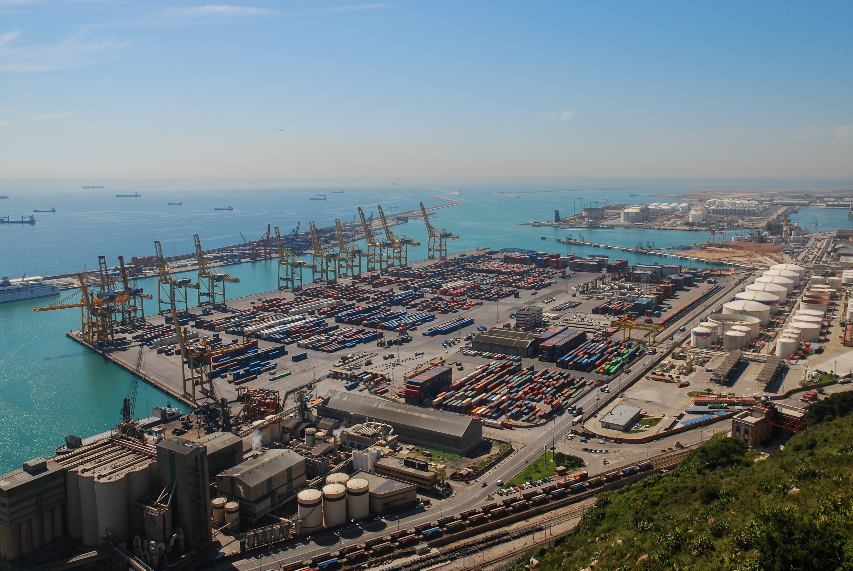 A part of the Port of Barcelona as seen from the cable car